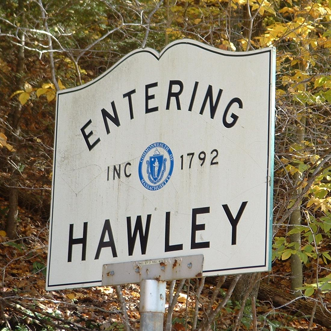 Entering Hawley - Inc. 1792. Sign along Route 8A looking south. Route 8A, Hawley-Charlemont line, Massachusetts.